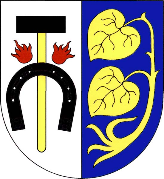 Coat of amrs of Kovanice , District Nymburk, Czech Republic